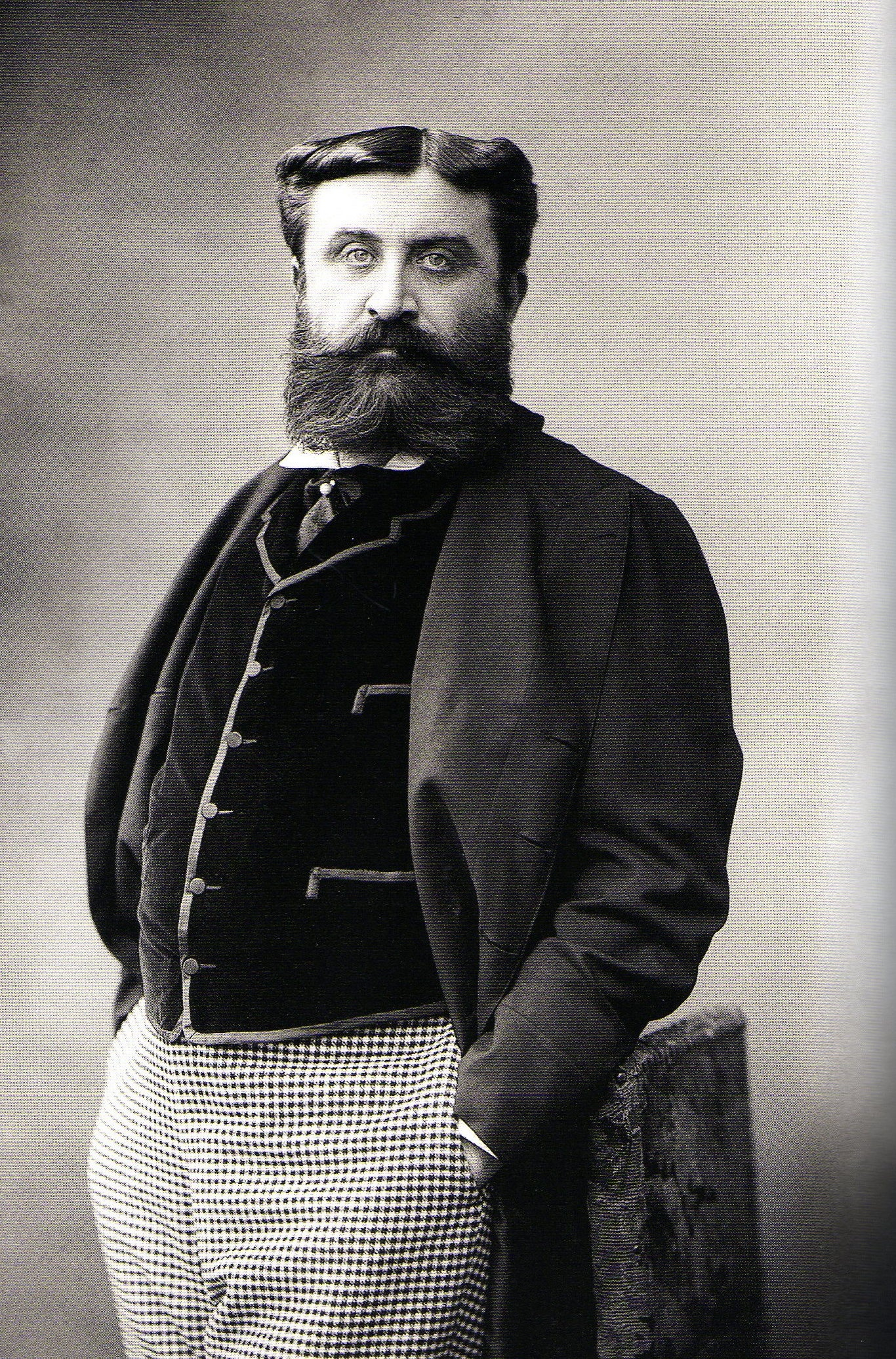 Comte Henry Greffulhe (1881) by Paul Nadar.